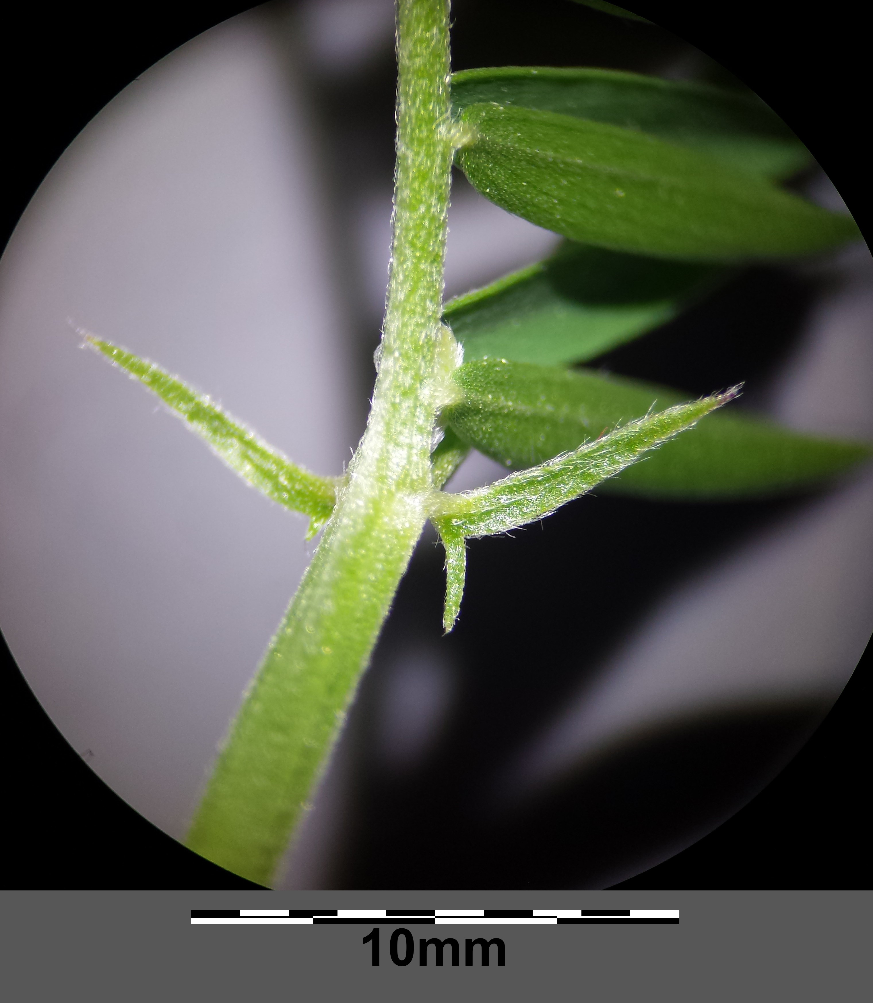 Stem with stipules Taxonym: Vicia tenuifolia ss Fischer et al. EfÖLS 2008 ISBN 978-3-85474-187-9 Location: near Niederhollabrunn, district Korneuburg, Lower Austria - ca. 350 m a.s.l. Habitat: semi-dry grassland